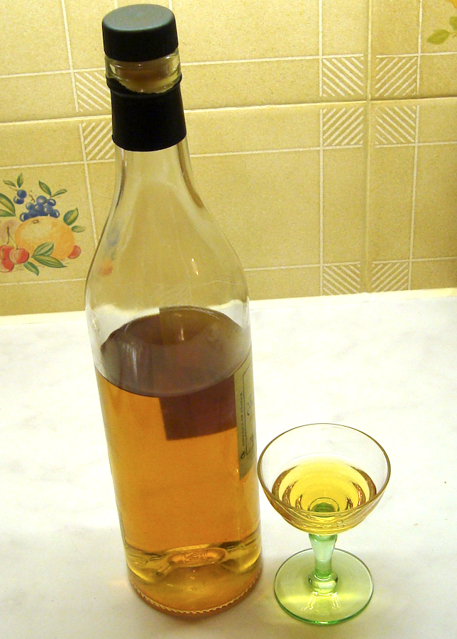 A bottle and glass of Tres Vieux Marc de Bourgogne (Egrappé). Marc is a type of Pomace Brandy (Grappa) from France. This particular type is a from Bourgogne (Burgundy), and is aged (unlike many Pomace Brandies), as can be seen by the colour of it(which is why it has a caramel-brown colour, rather than being colourless), which it acquires during the aging process.